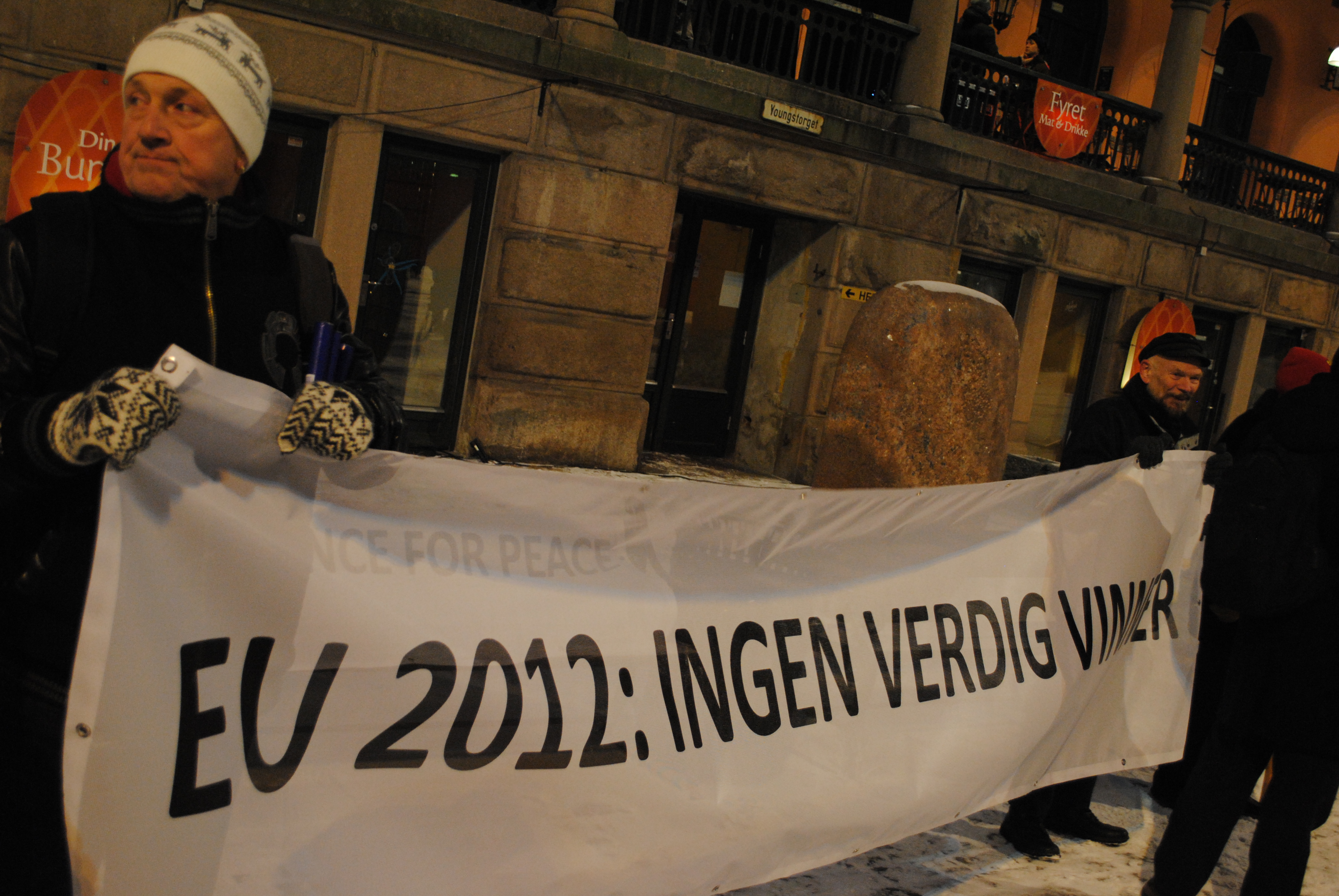 Protest in Oslo against the appointment of the EU as winner of the Nobel Peace Prize in 2012.